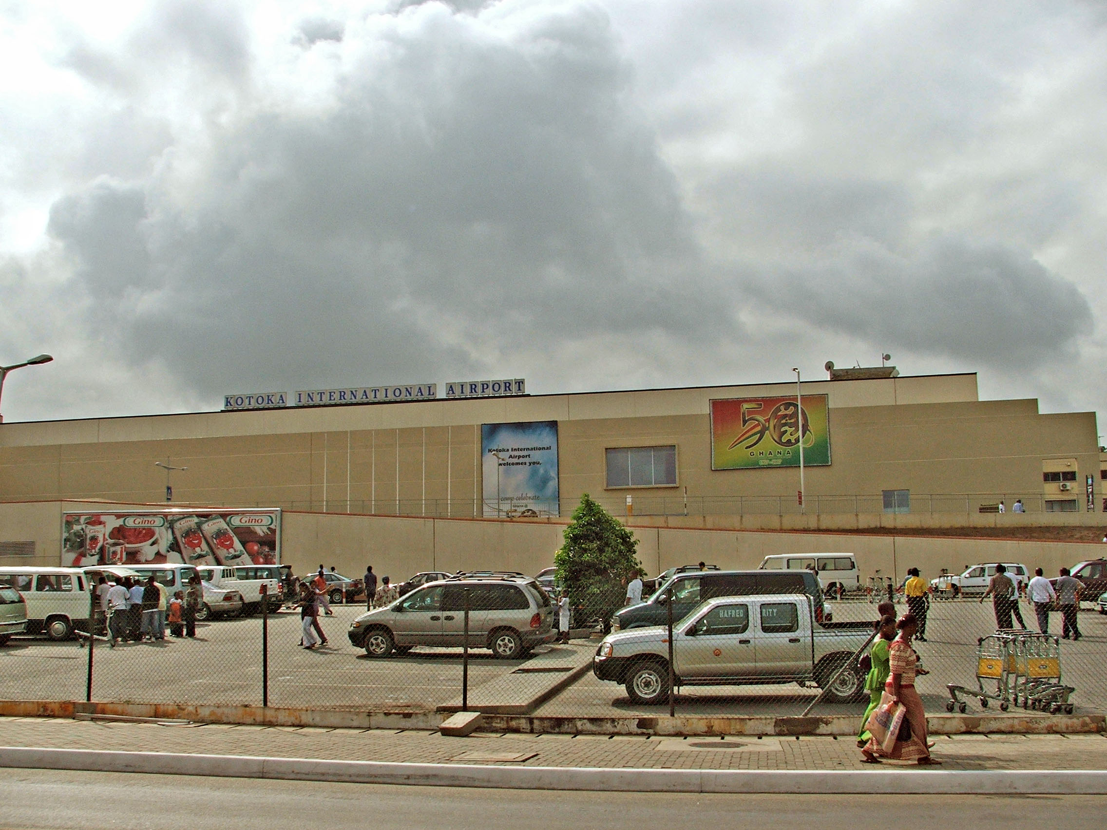 Side shot of Kotoka International Airport in Accra, Ghana